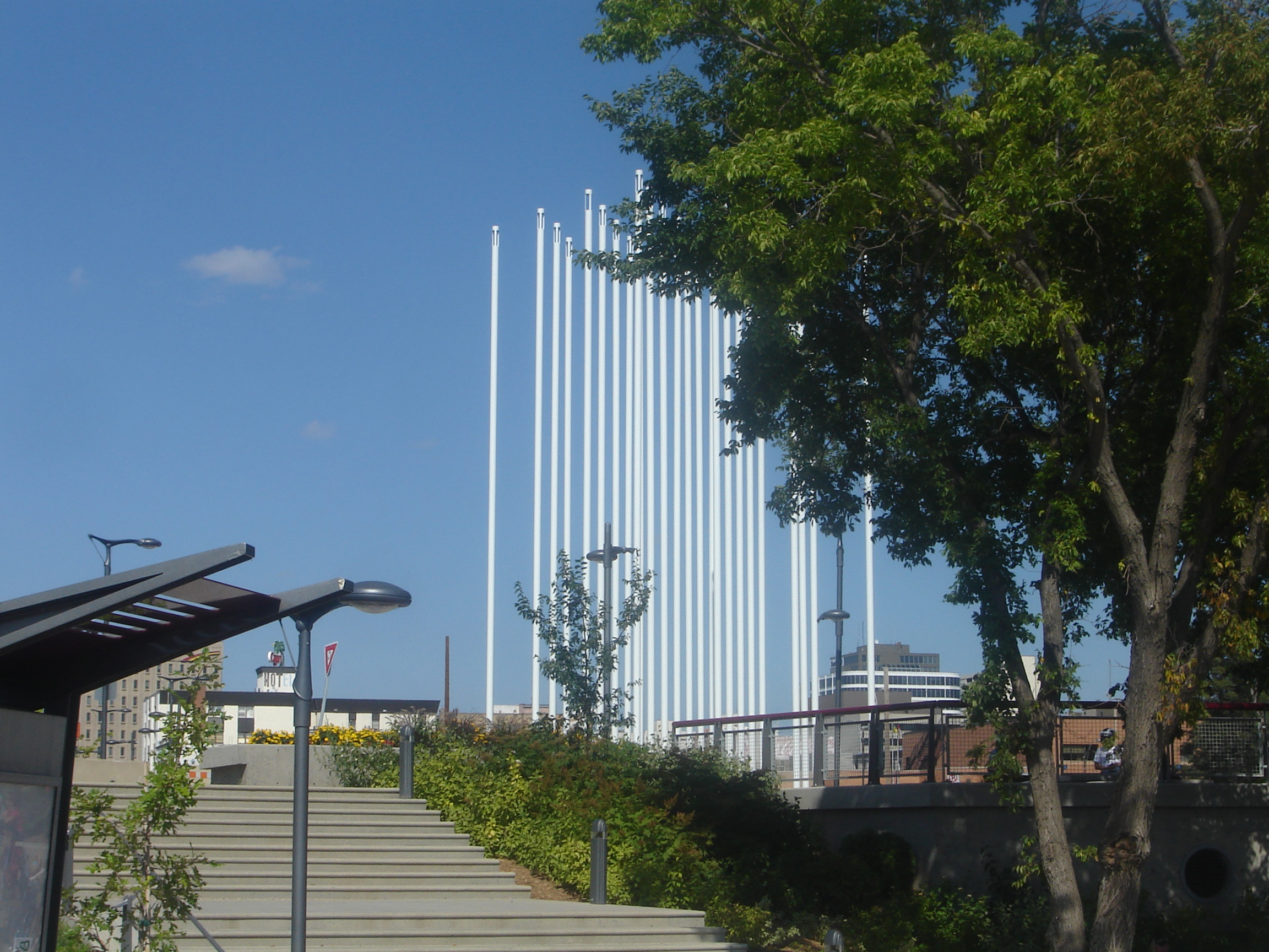 River Landing Landmark. Prairie Wind. Designers Jyhling Lee & Paul Koopman (Lee-Koopman Projects) Obert Friggstad (Friggstad Downing Henry Architects) Engineering Brian Brownlee Bruce Sparling Construction Management Wolfe Management Ltd. Project Manager Chris Dekker. Along the South Saskatchewan River taken in River Landing Central Business District, Saskatoon, Saskatchewan, Core Neighbourhoods SDA, Saskatoon